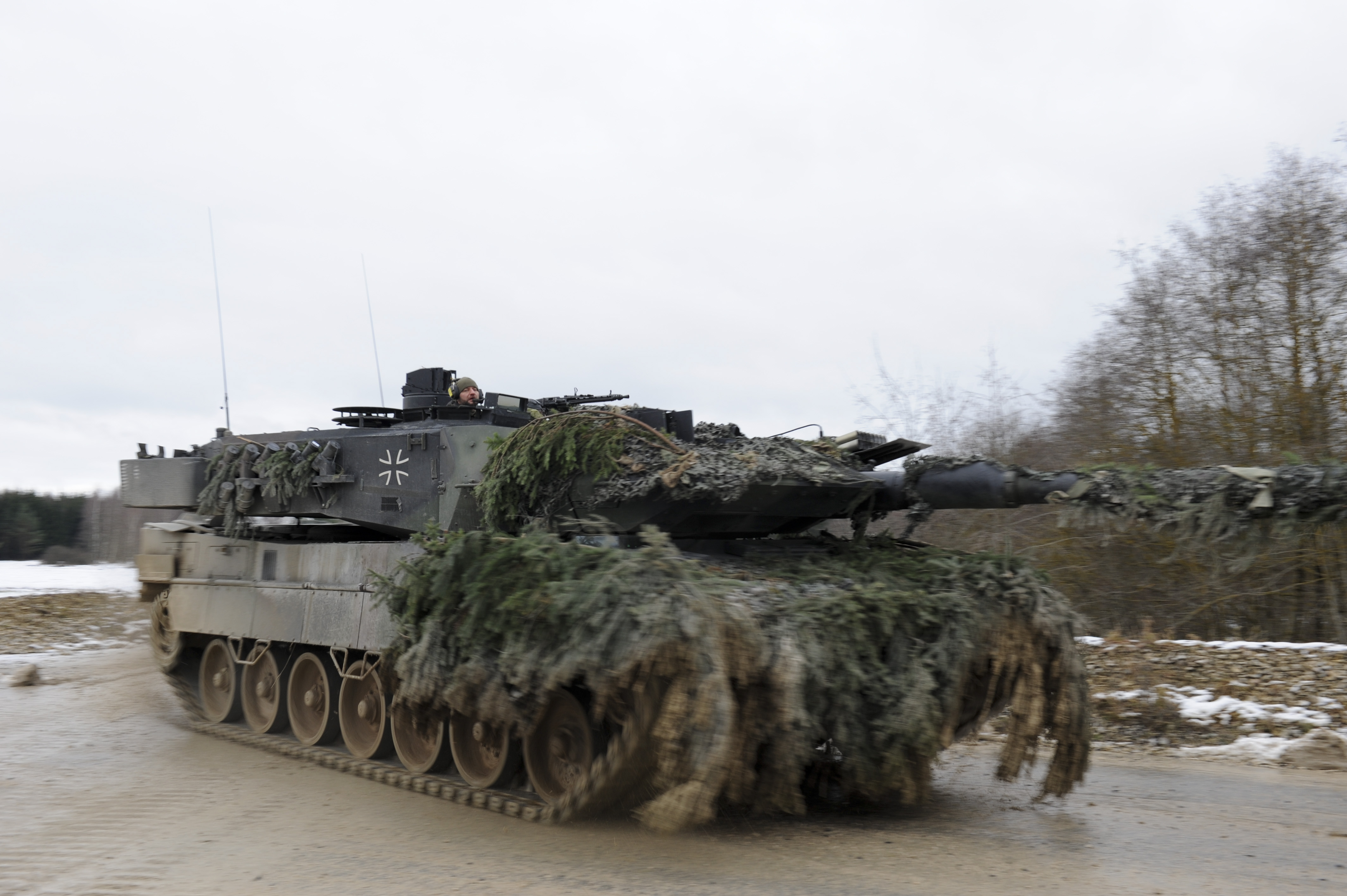 GRAFENWOEHR, Germany-- A German army Leopard 2 main battle tank heads to the range here Dec. 8 during the Iron Panzer combined live fire exercise.The exercise, which runs Dec. 5-9, pairs Soldiers from U.S. Army Europe’s 3rd squadron 2nd Cavalry Regiment with the German 104th Panzer Battalion in a combined live fire exercise designed to enhance coordination between the U.S. and German armies.